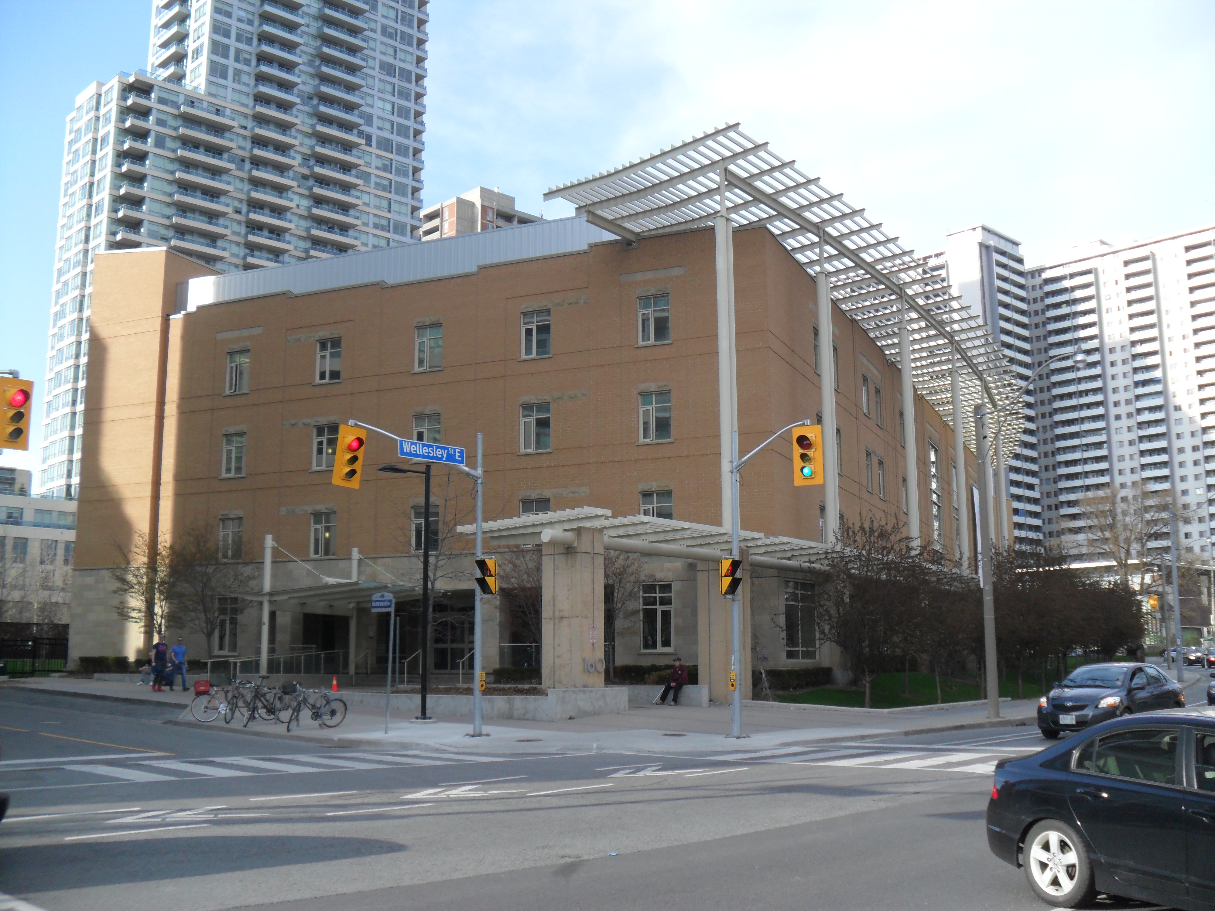 Wellesley Central Place, site of the former (now demolished) Wellesley Hospital. Toronto, Ontario, Canada.